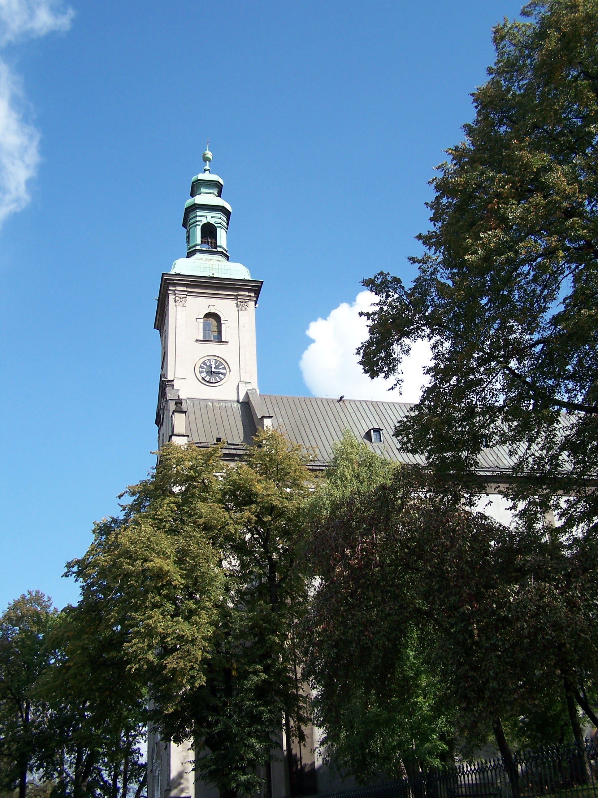 Church of Jesus in Cieszyn, Poland